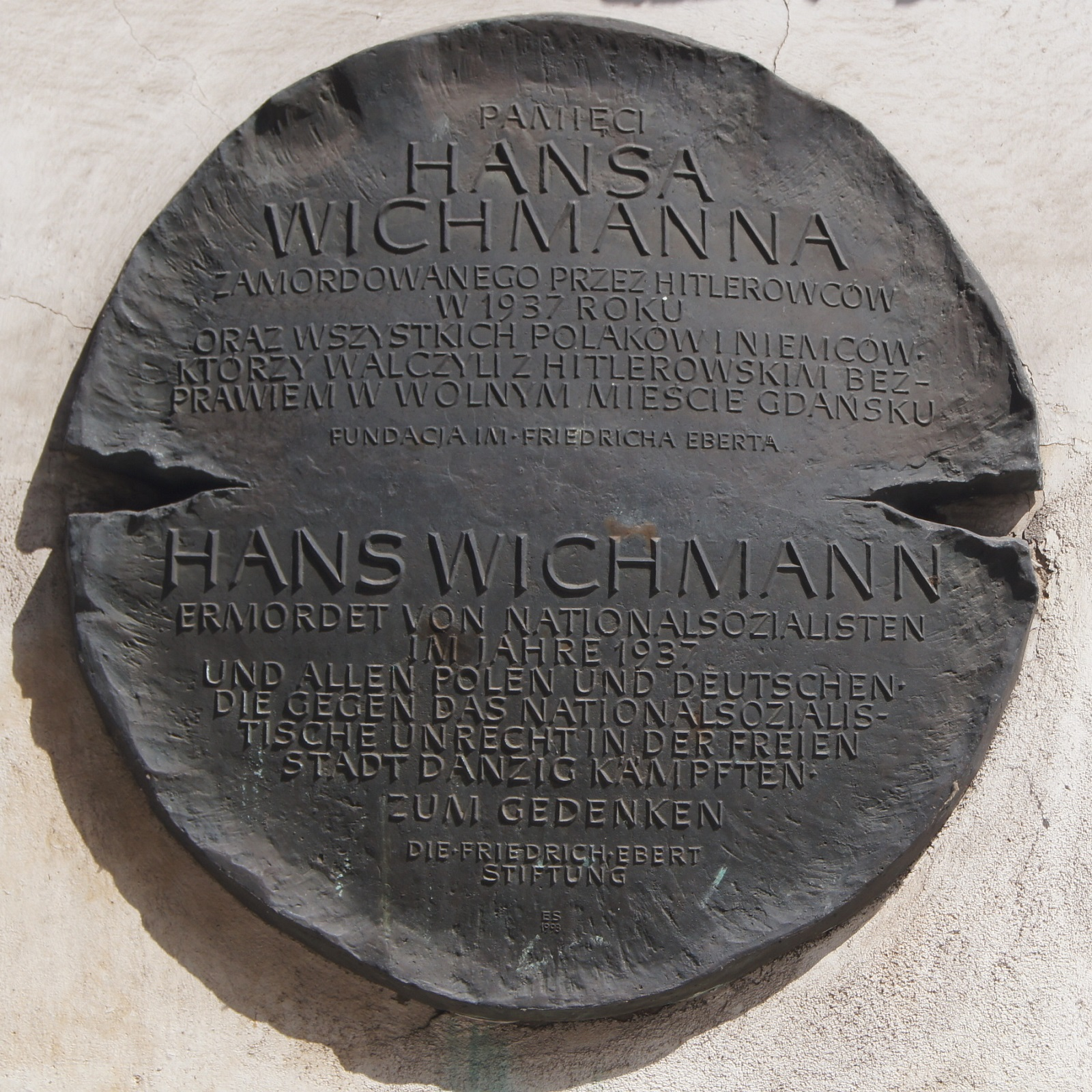 Plaque for Hans Wichmann - murdered 1937, 6 Sieroca street, Gdańsk